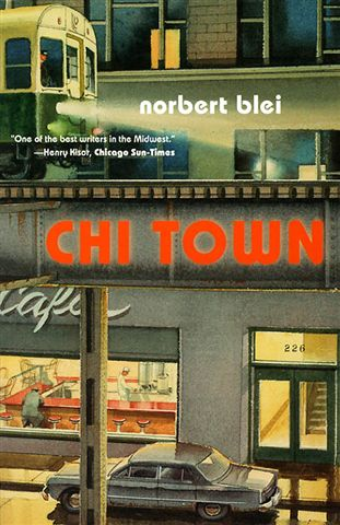 cover of Chi Town, a 2009 book from Norbert Blei's "Chicago Trilogy"